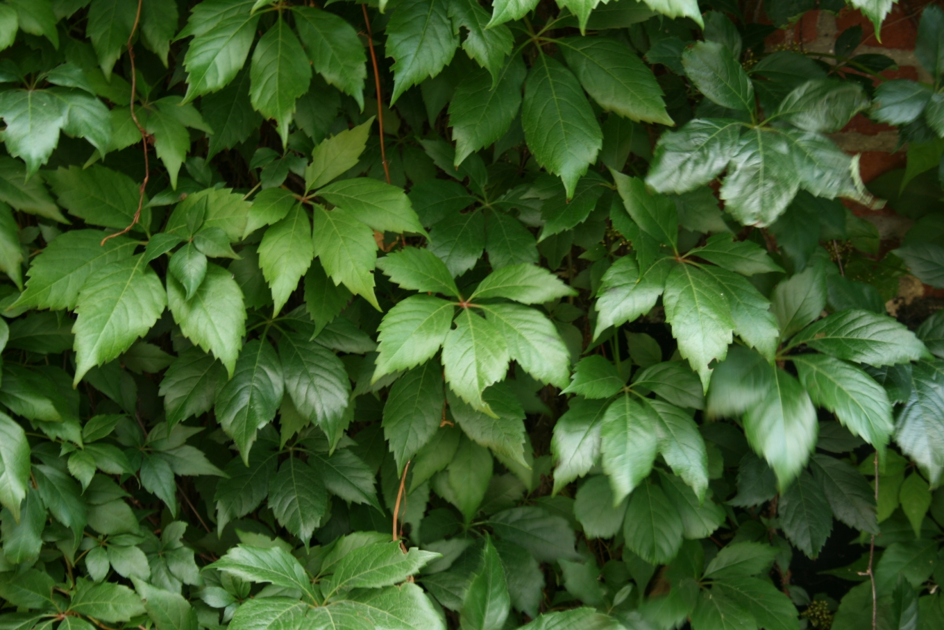 Parthenocissus vitacea foliage